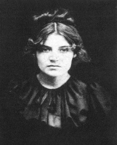 Photo of Suzanne Valadon (1865-1938), painter and model